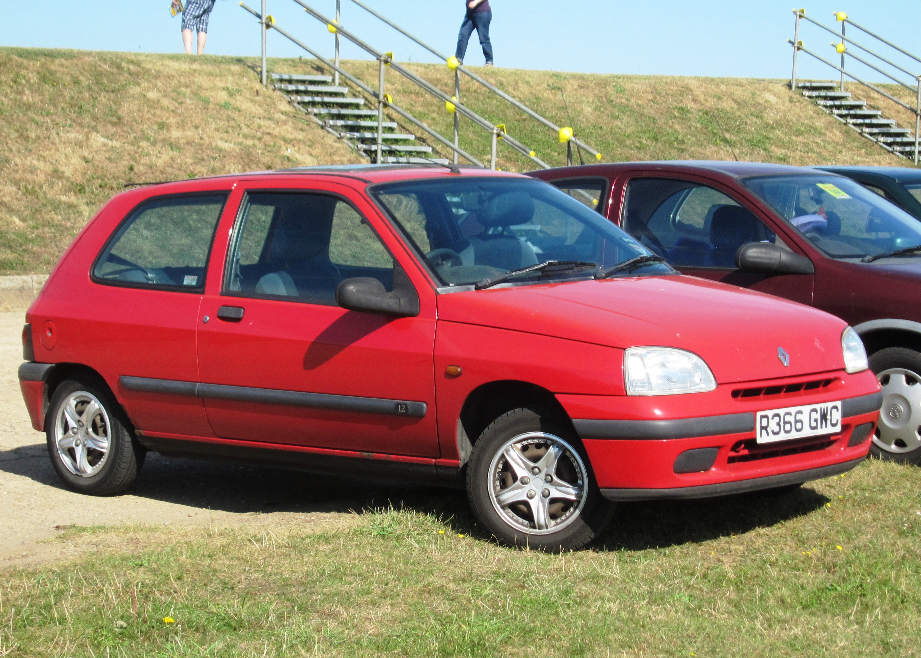 Renault Clio I Phase III at Snetterton